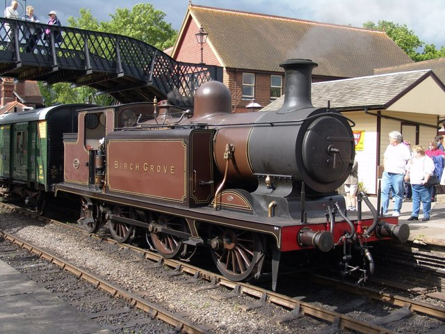 Birch Grove at Sheffield Park Station